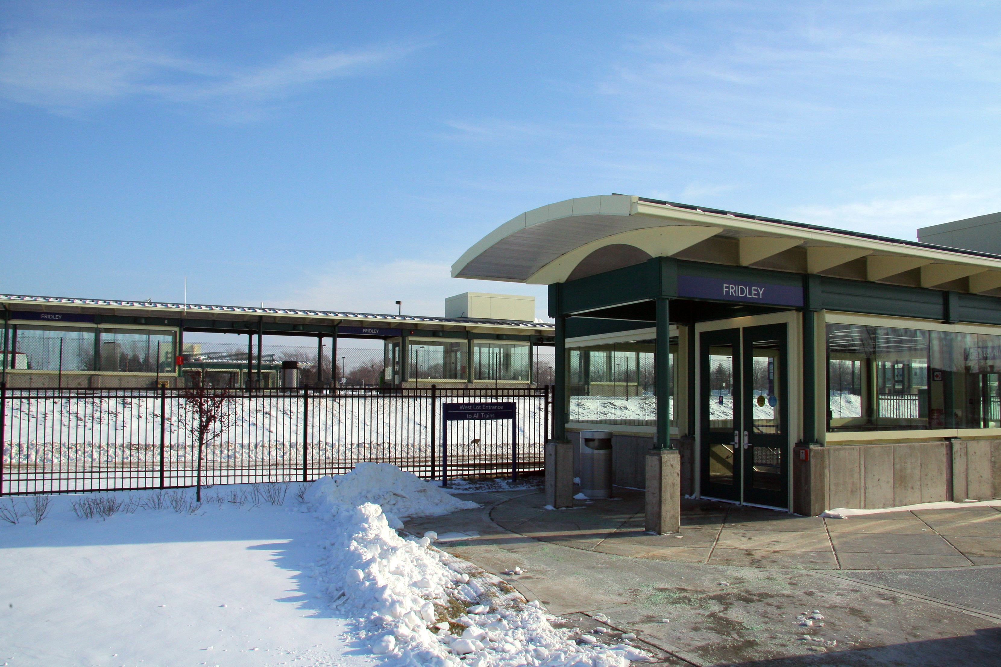 Northstar Commuter Rail stop in Fridley (Fridley station). This station has an island platform accessible via tunnel entrances on the east and west sides. The west tunnel entrance is in the foreground with the platform behind it. Beyond that is the top of the east tunnel entrance.